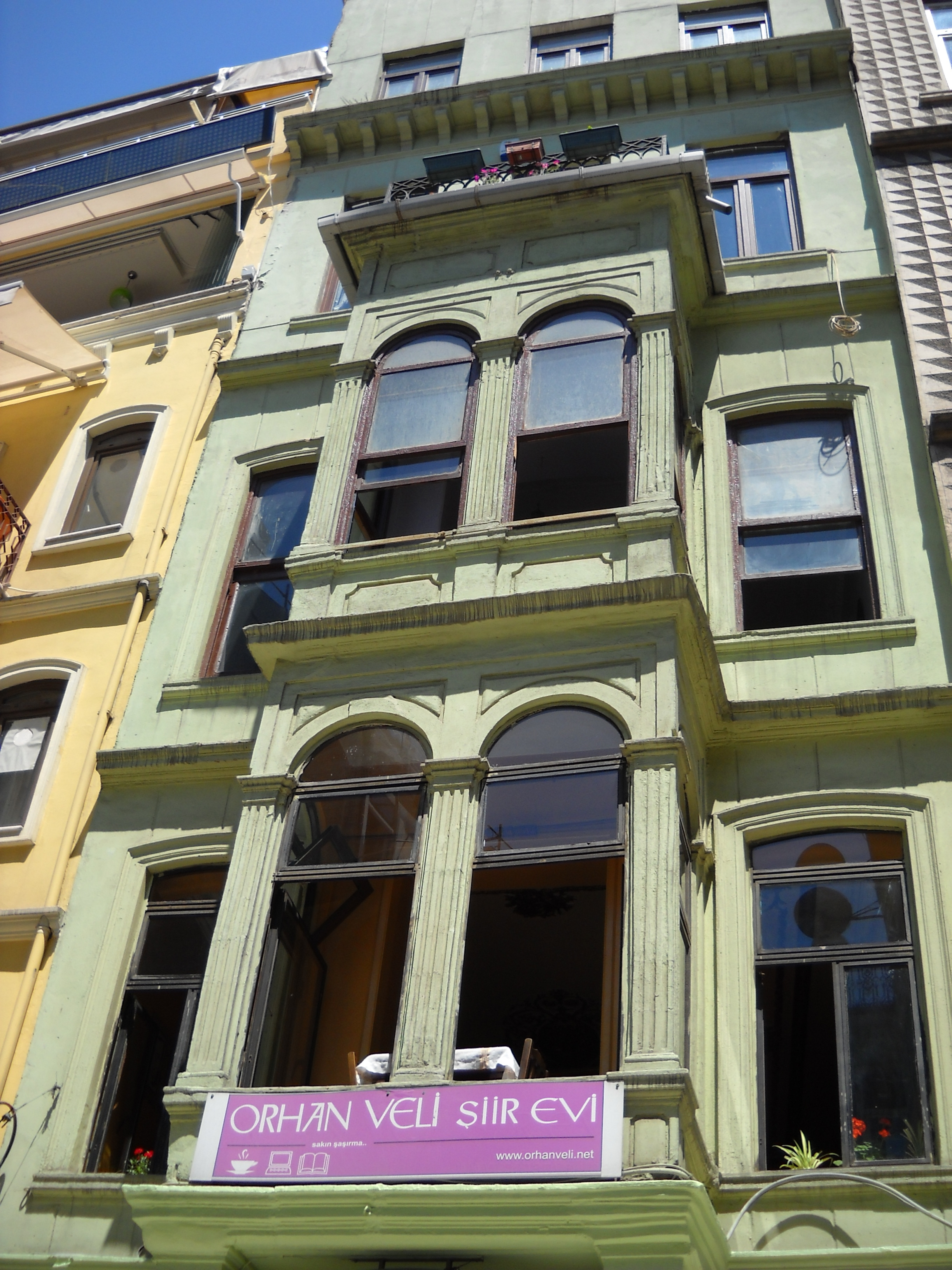 Orhan Veli Poem House, located in Taksim (Istanbul).